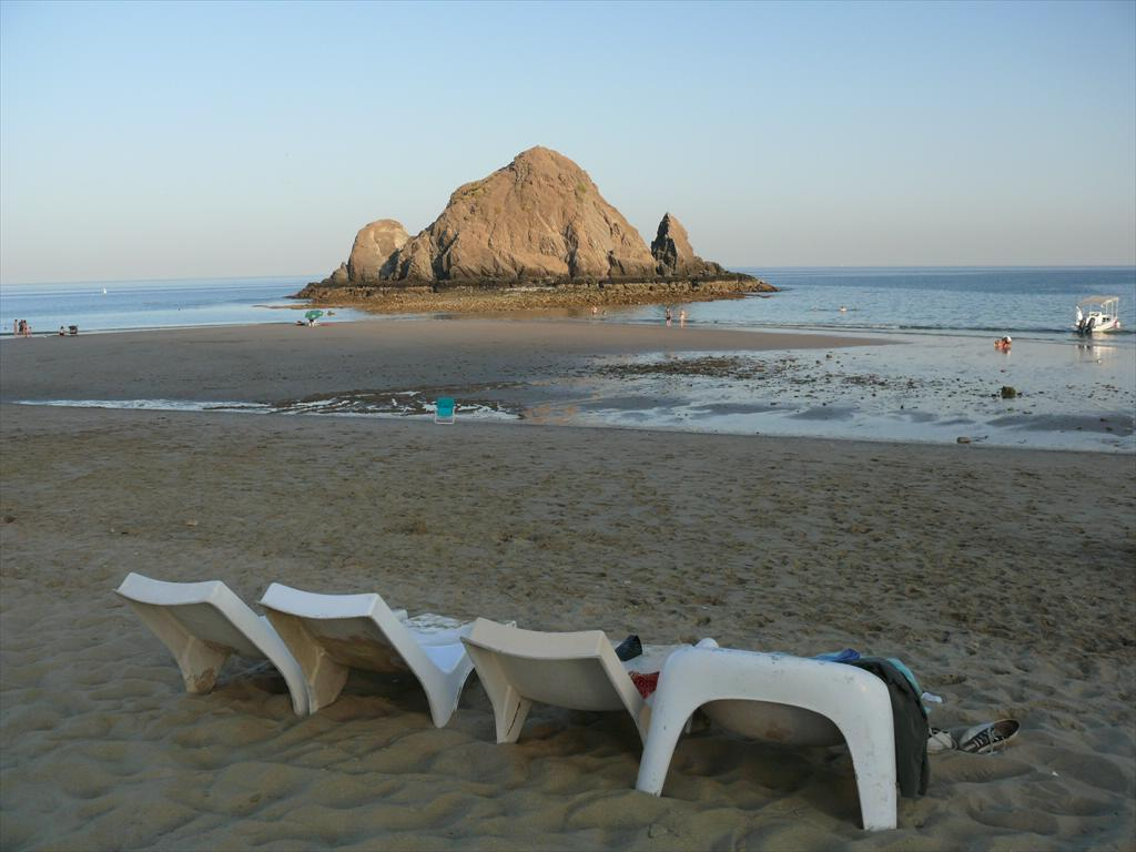 This is a photo of a beach in Fujairah, United Arab Emirates on 27 October 2007. The rock seen off the coast is known as "Snoopy." The name came from the shape of the rock which resembles the Peanuts character Snoopy laying on his house.